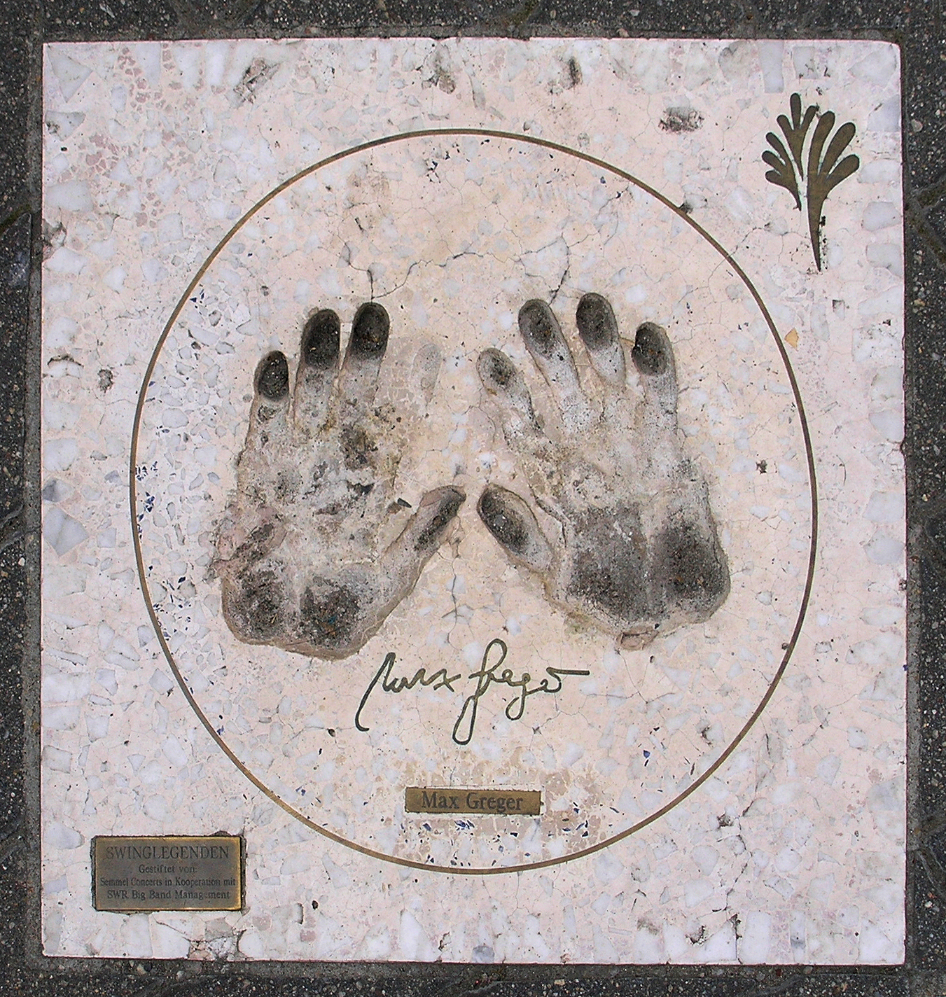 Memorial plaque, Max Greger, Friedrichstraße 107, Berlin-Mitte, Germany Koordinate:52°31′25″N 13°23′17″E / 52.52361°N 13.38806°E